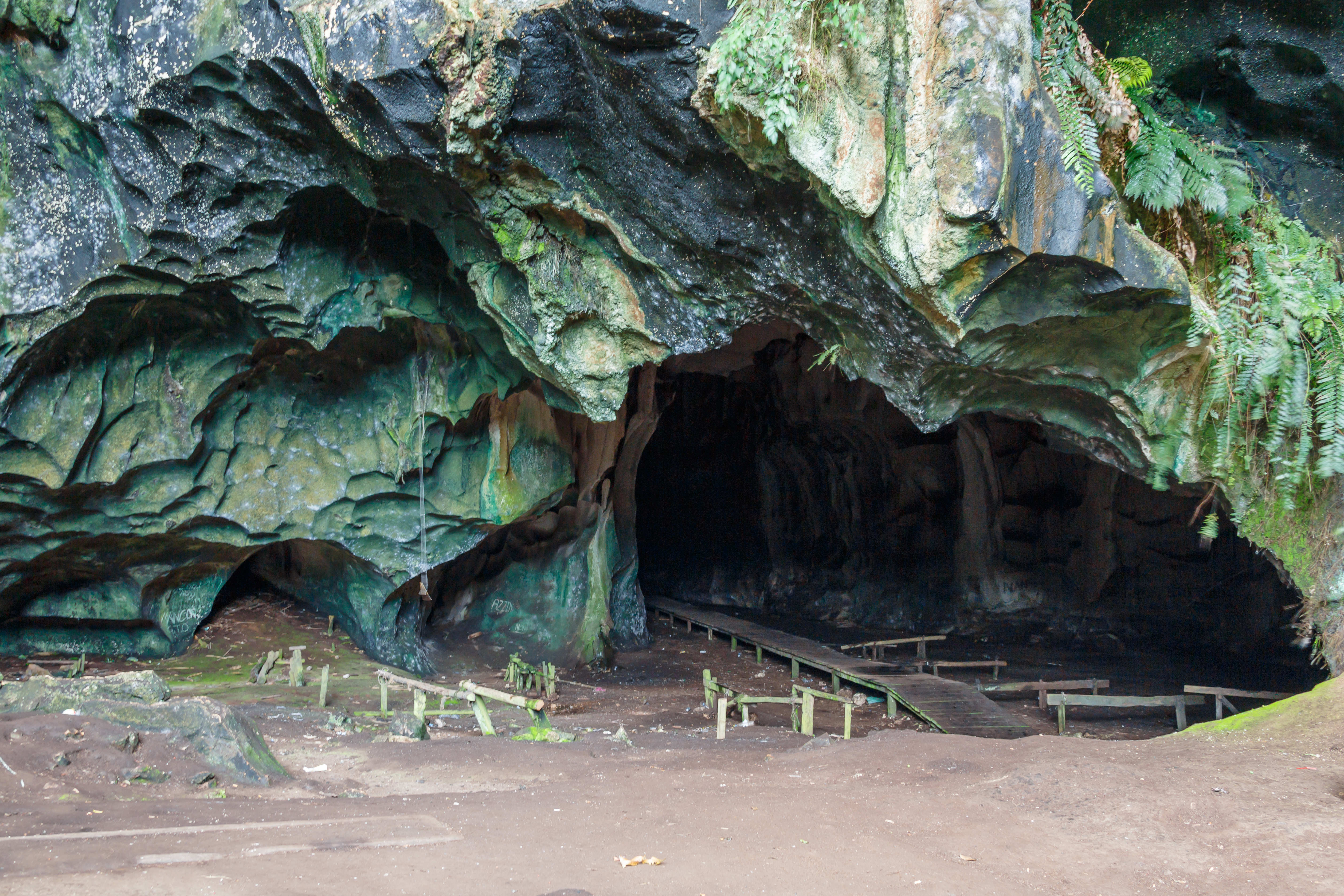 Kg Madai, Sabah: Entrance to Madai Cave behind Kg Madai, an Idahan village)